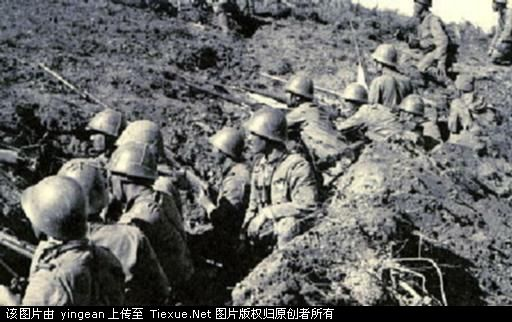 Soldiers of the Japanese 7th Infantry Regiment launching an attack, the Battle of Shanghai.